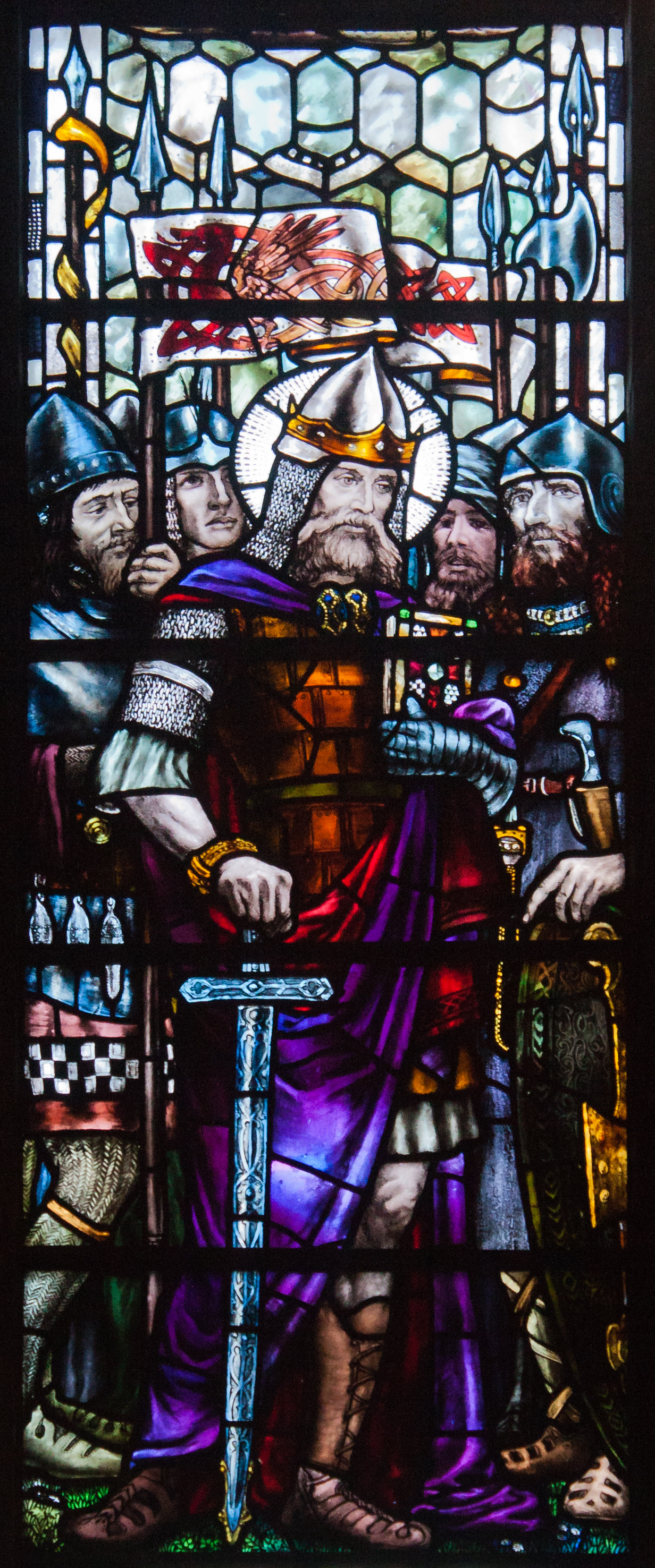 Detail of a stained glass window in the east wall of the north transept, depicting King Cormac of Cashel as bishop, warrior and scribe. Designed by Sarah Purser (died 1943), painted by Alfred E. Child (died 1939), and executed by An Túr Gloine in Dublin in 1906.